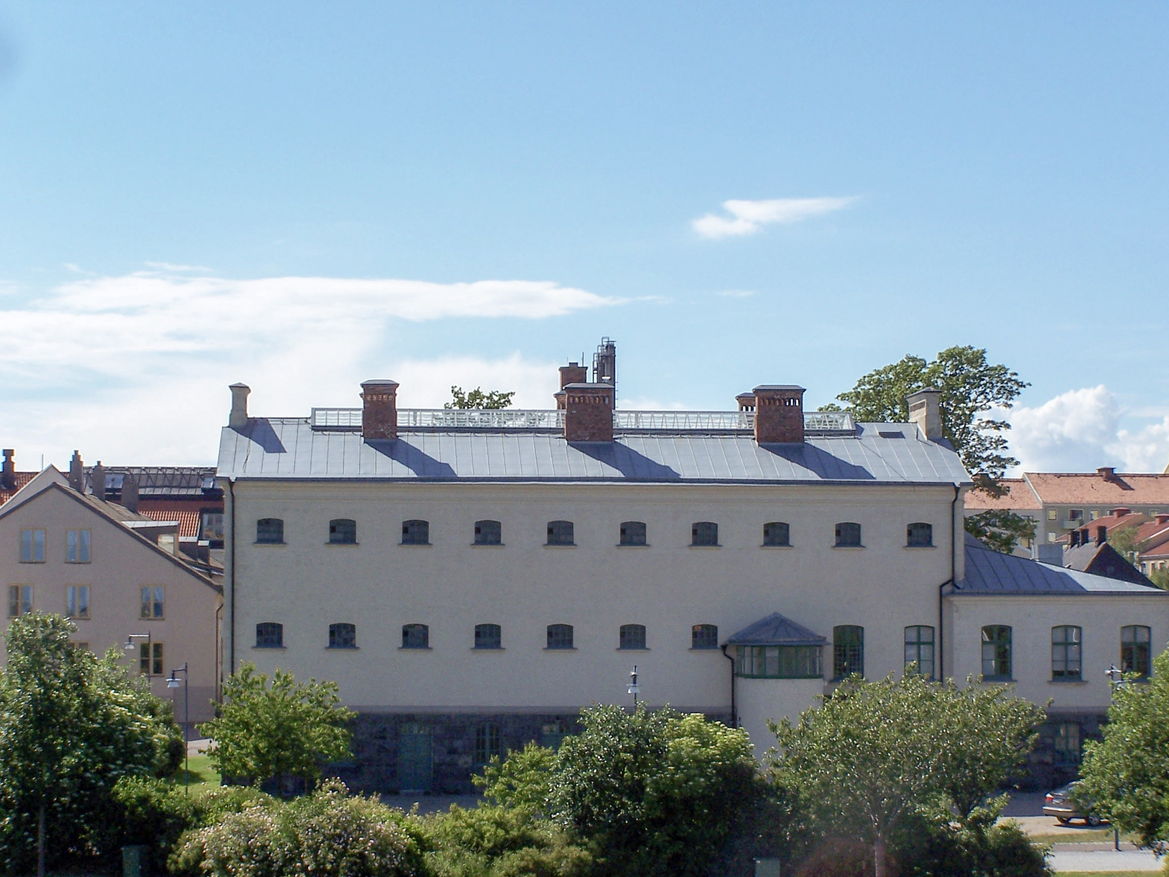 Crown's custody, Stumholmen, Karlskrona